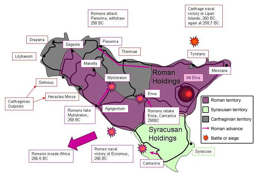 A map of Sicily showing Rome and Carthage's territories, movements and the main military clashes 260–256 BC.